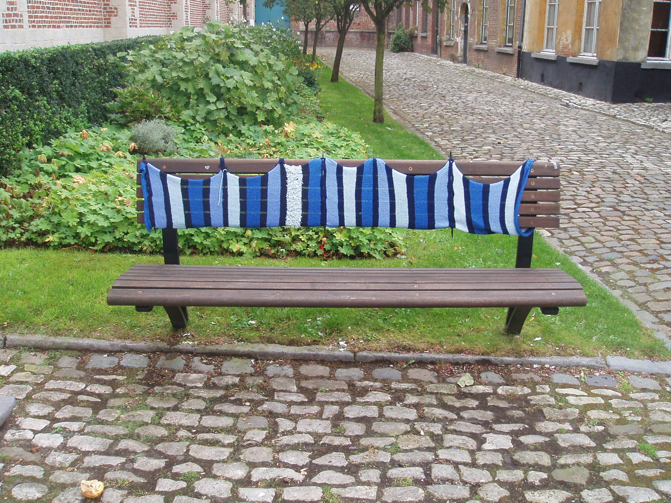 Knitted graffiti Lier